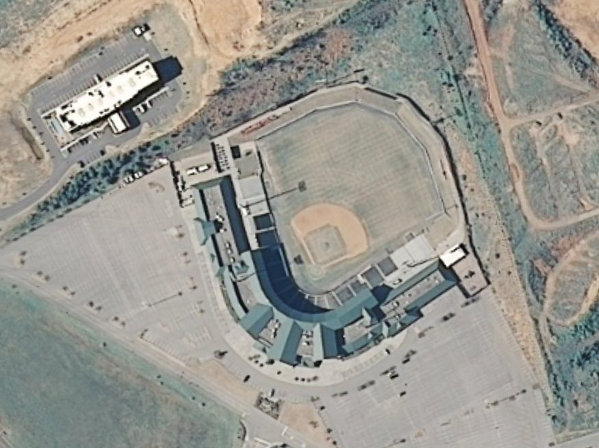 Smokies Park, as seen in The National Map, a scale of 1:2,257